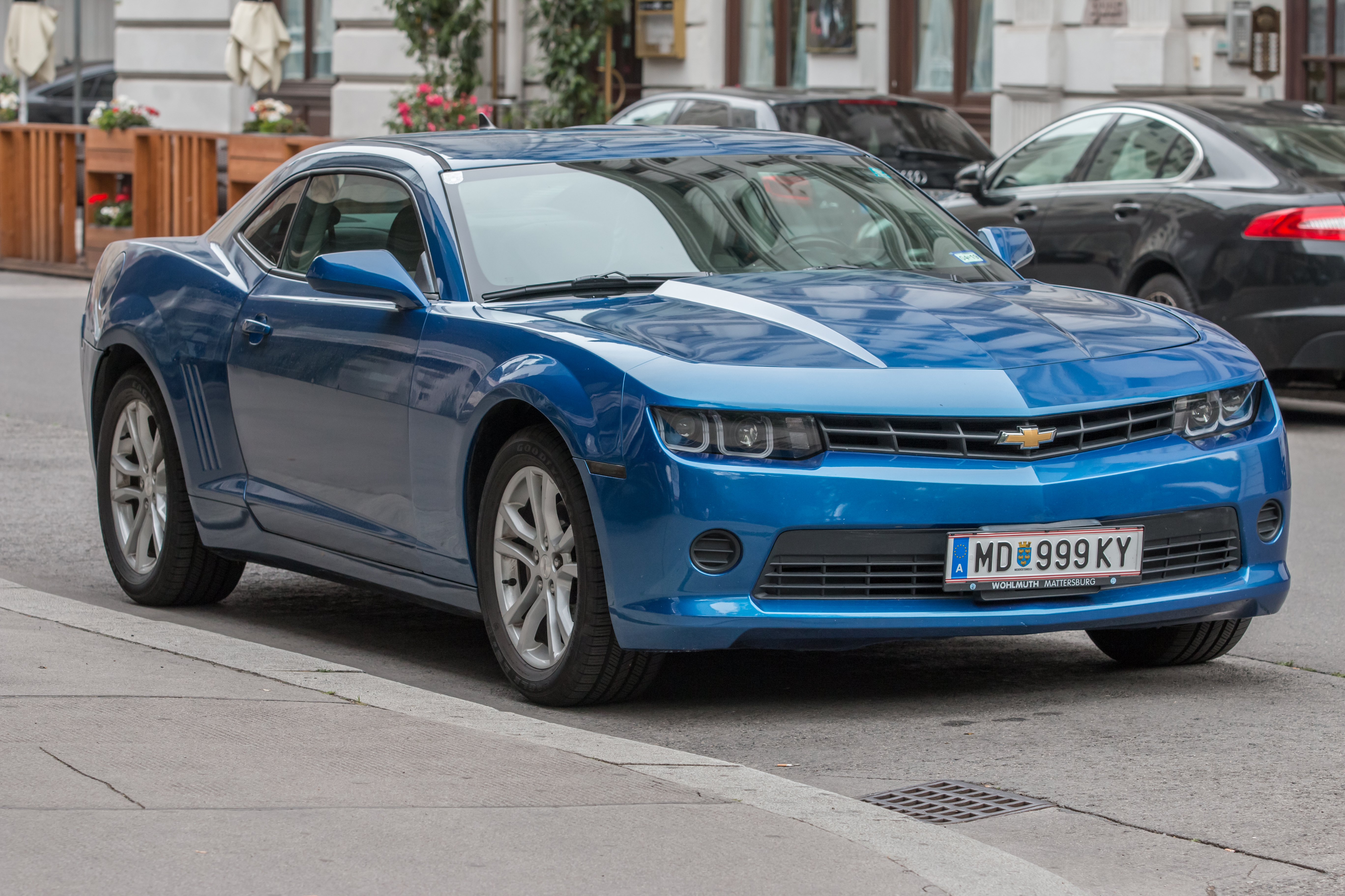 Chevrolet Camaro RS (5th gen 2015)